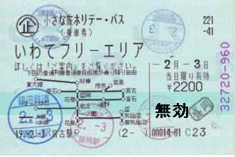 Used Chiisana Tabi Holiday Pass (literally "Small Trip Holiday Pass") ticket for the Iwate area